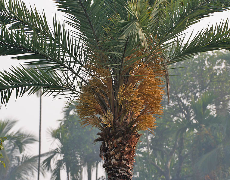 Wild Date Palm Phoenix sylvestris at Narendrapur near Kolkata, West Bengal, India.